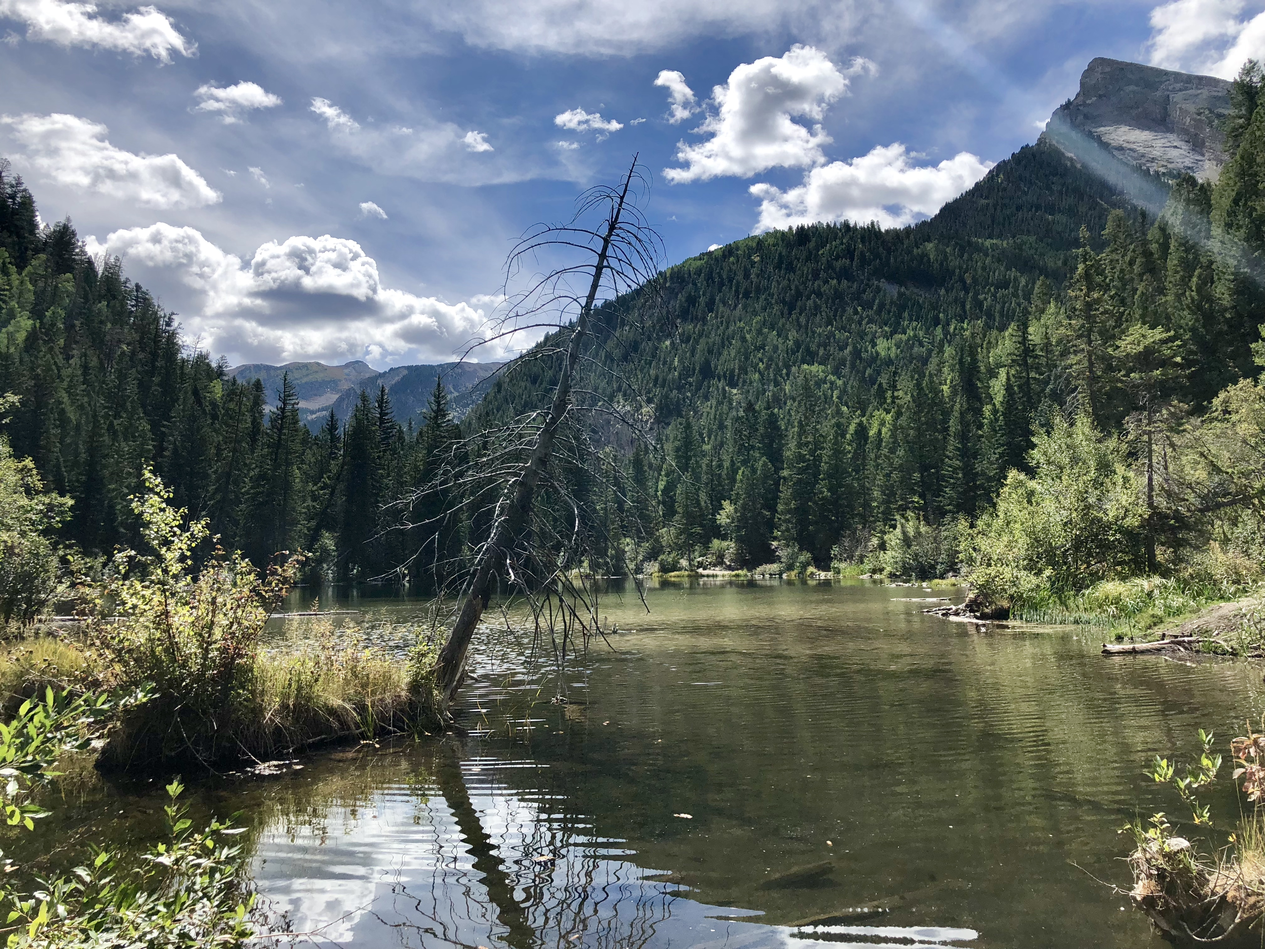 Midday at Lizard Lake in Gunnison County, Colorado, United States in September 2018.